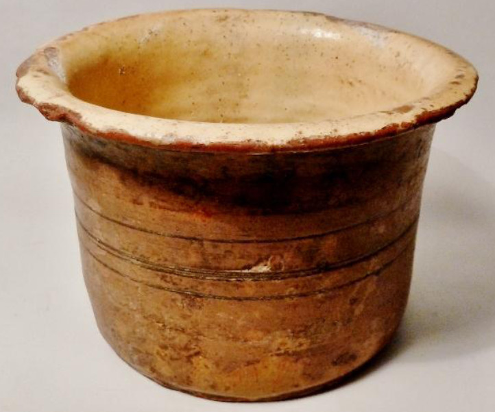 Cheese (stoneware Bowl glaze to preserve the cheese). Height 12 cm. produced in Castrojeriz (Burgos, Spain). Traditional Spanish pottery.